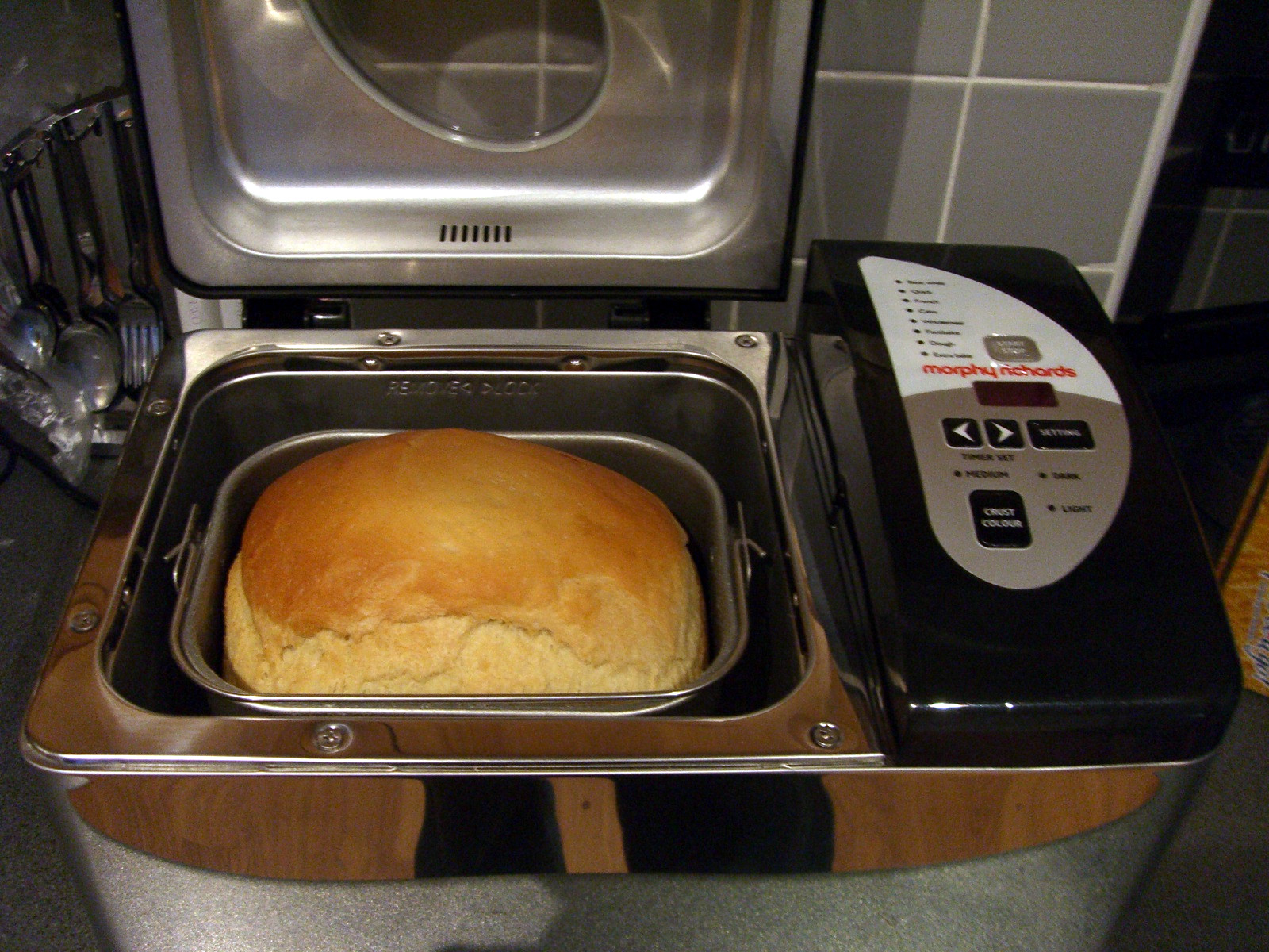 Making bread in bread machine.